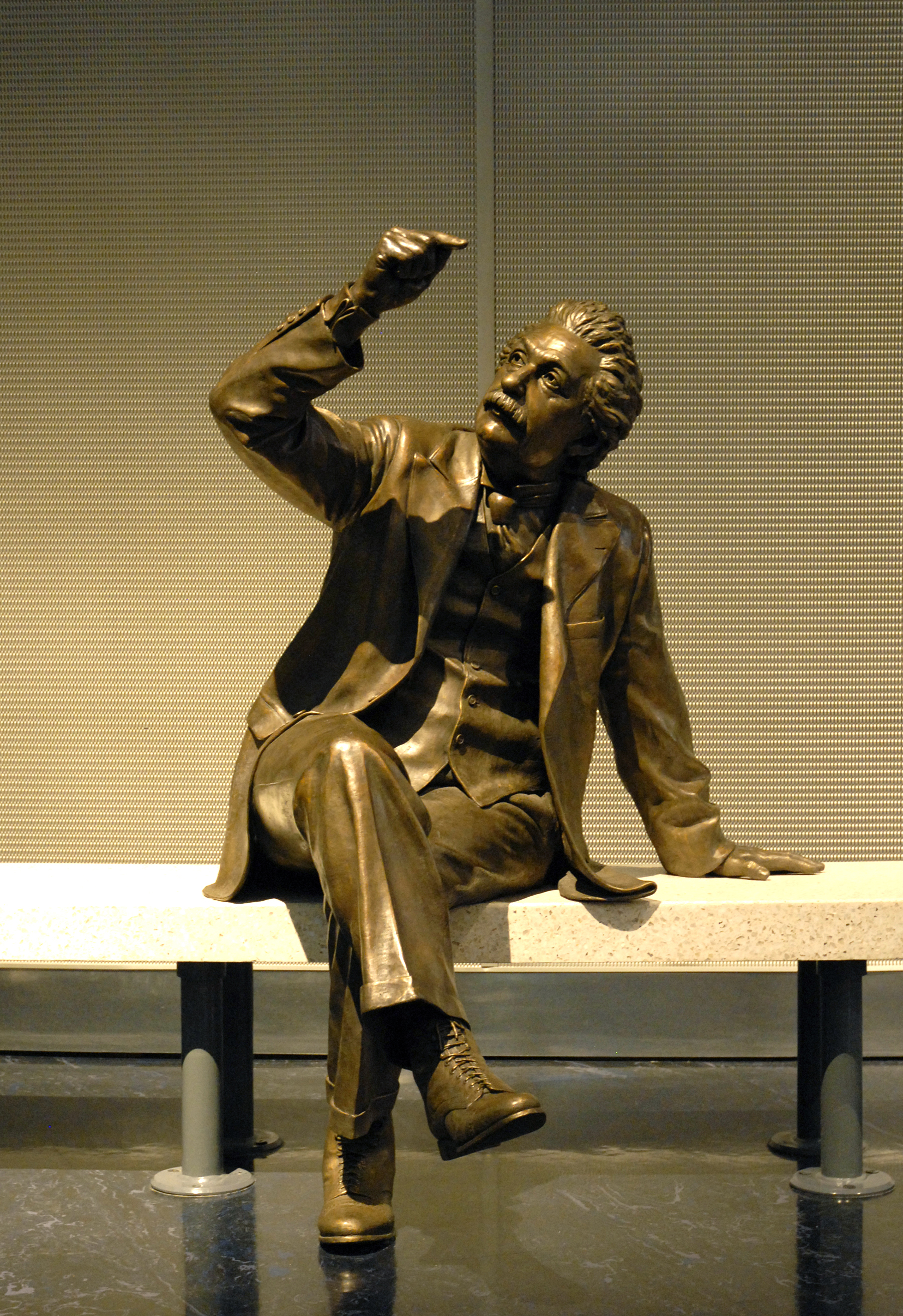 Bronze statue of Albert Einstein at Griffith Observatory, Los Angeles, California